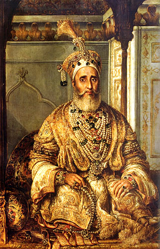 Bahadur Shah II, last Mughal emperor of India (1838-1857).